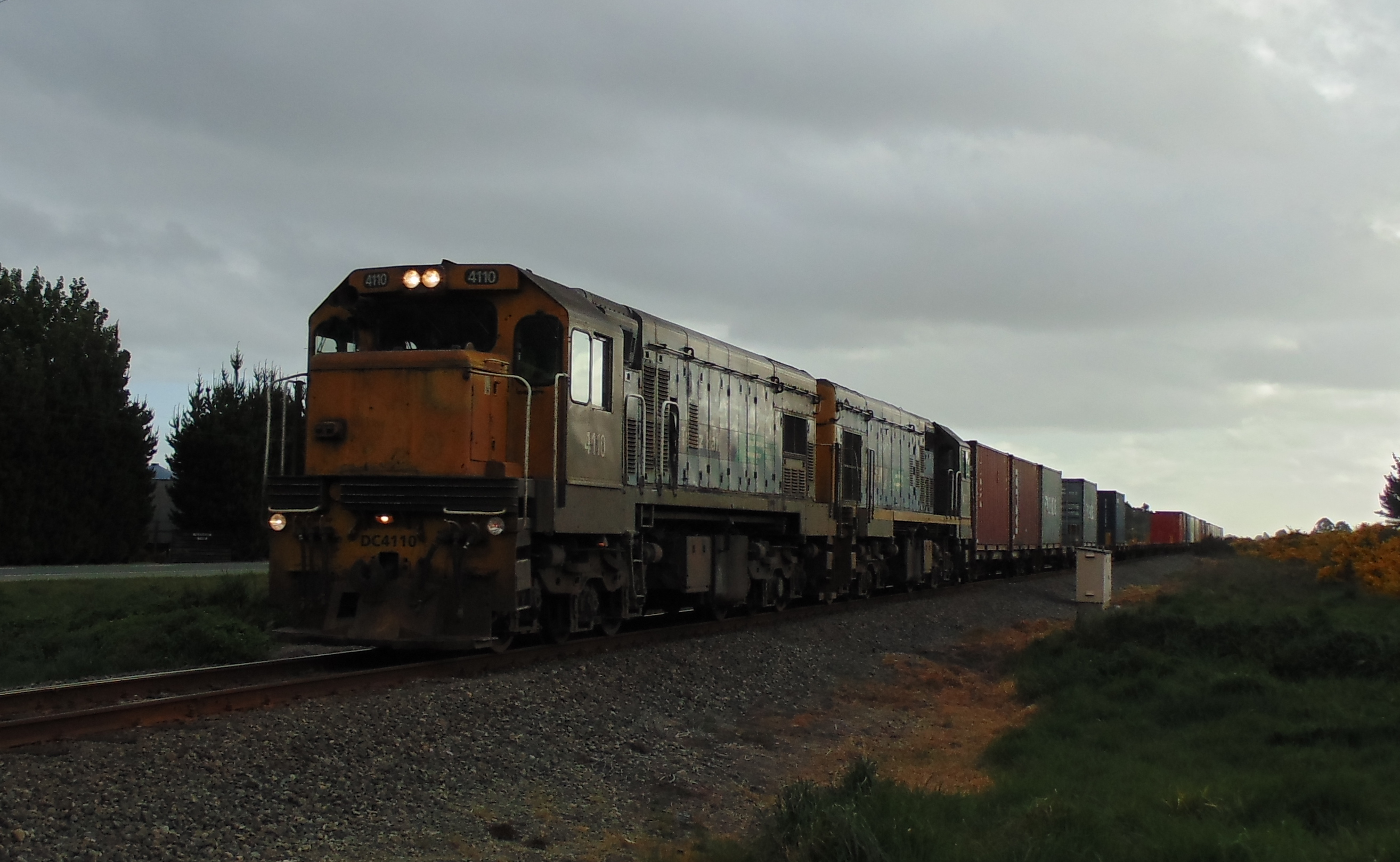 TrainboyMBH